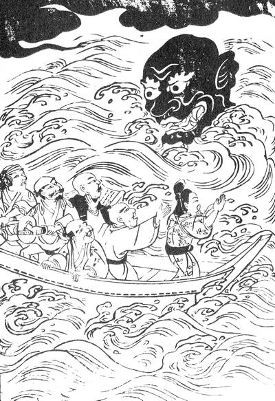 Kuro-nyūdō (Umibōzu) from the Kii zōtan-shū